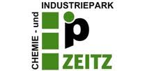 Logo of Chemie- und Industriepark Zeitz